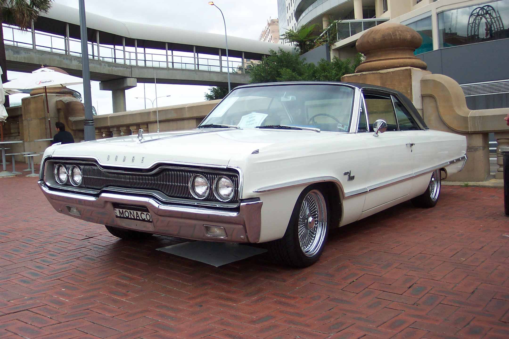 1966 Dodge Monaco coupe. Taken at the Chrysler & Valiant Owners Association 2005 Display Day, held on Pyrmont Bridge, a historic swing bridge that spans Darling Harbour in Sydney.